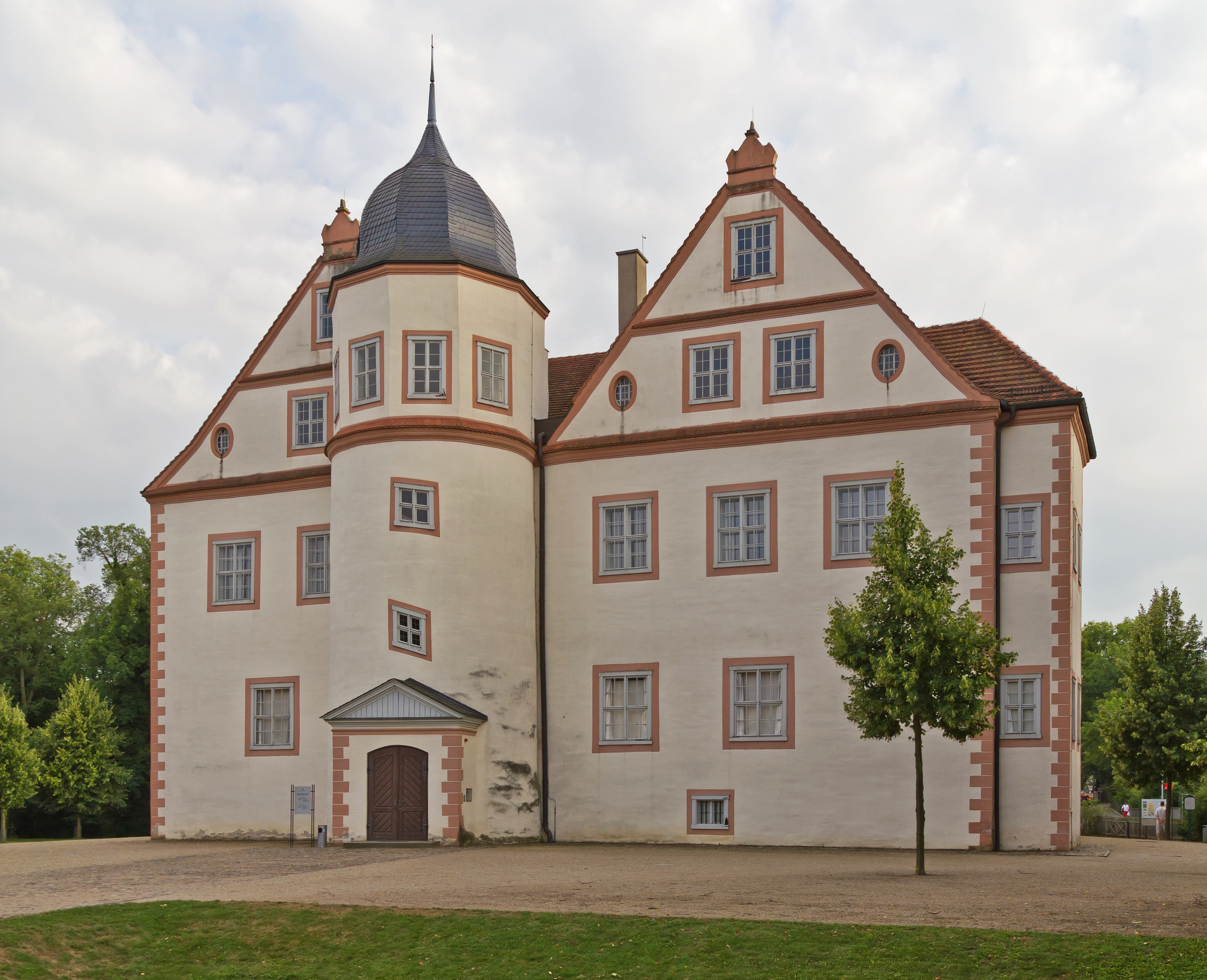 Manor in Königs Wusterhausen, Brandenburg, Germany